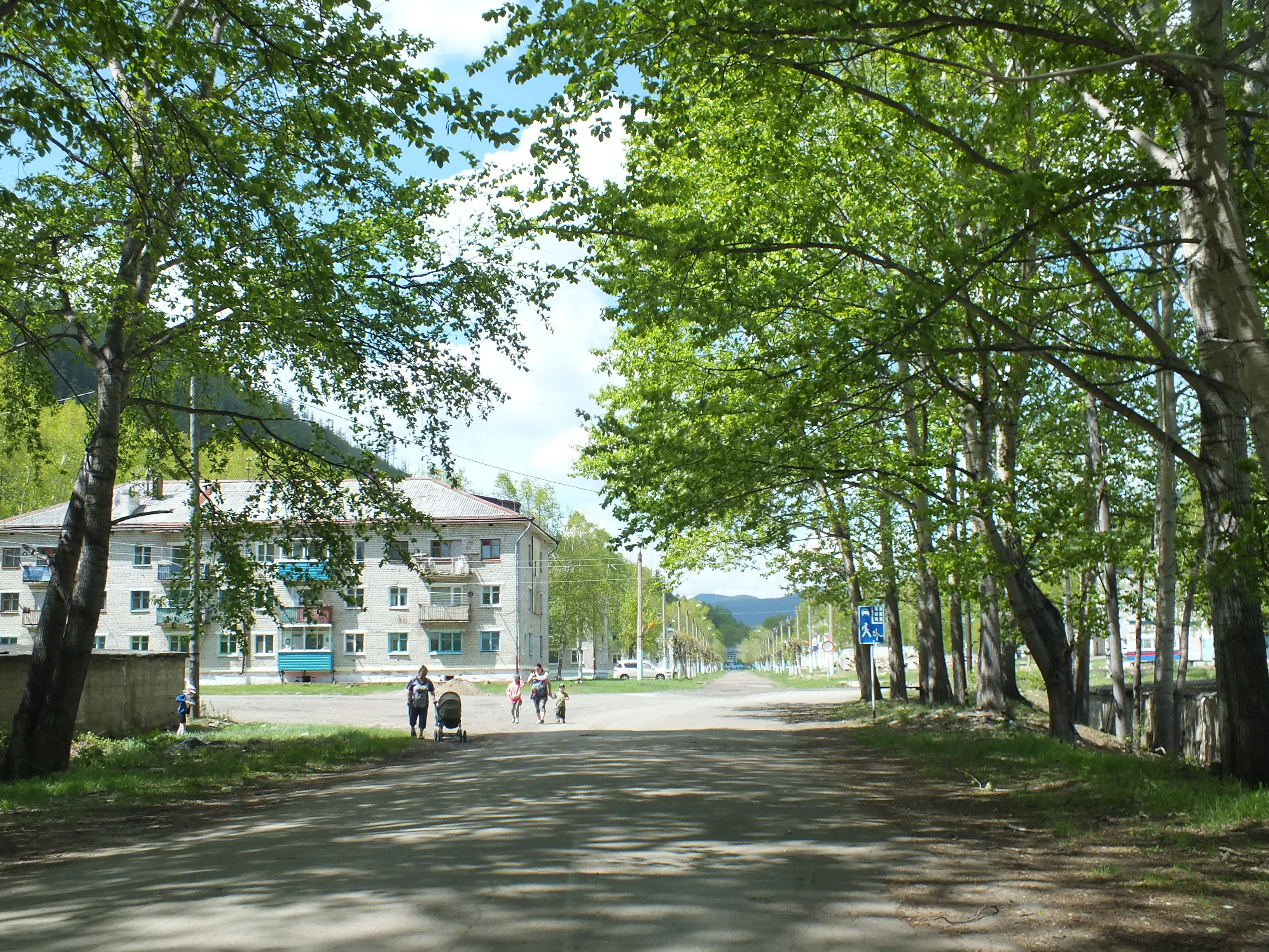 Gorniy Solnechniy rayon Khabarovskiy kray